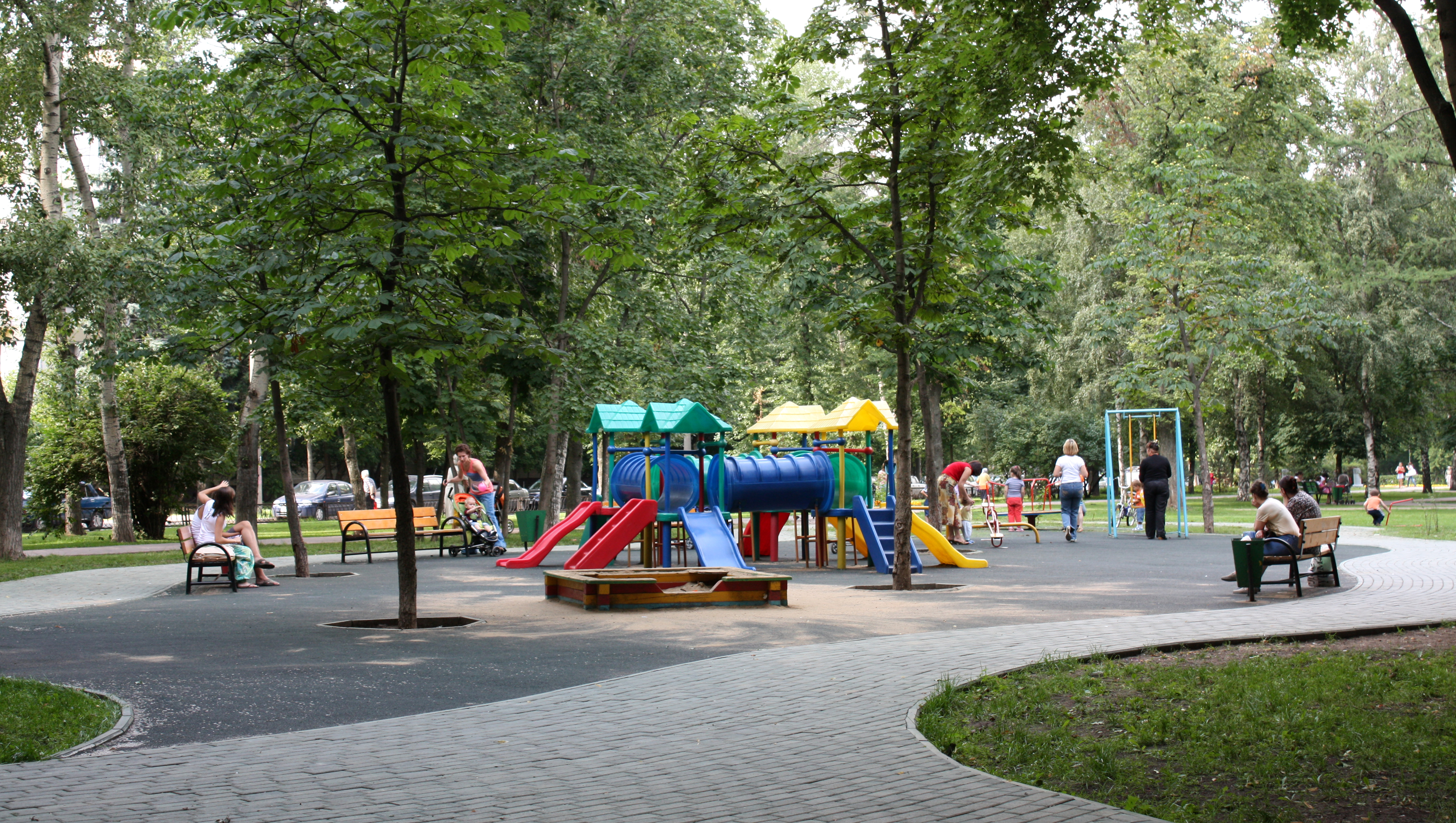 Boulevard of General Karbyshev